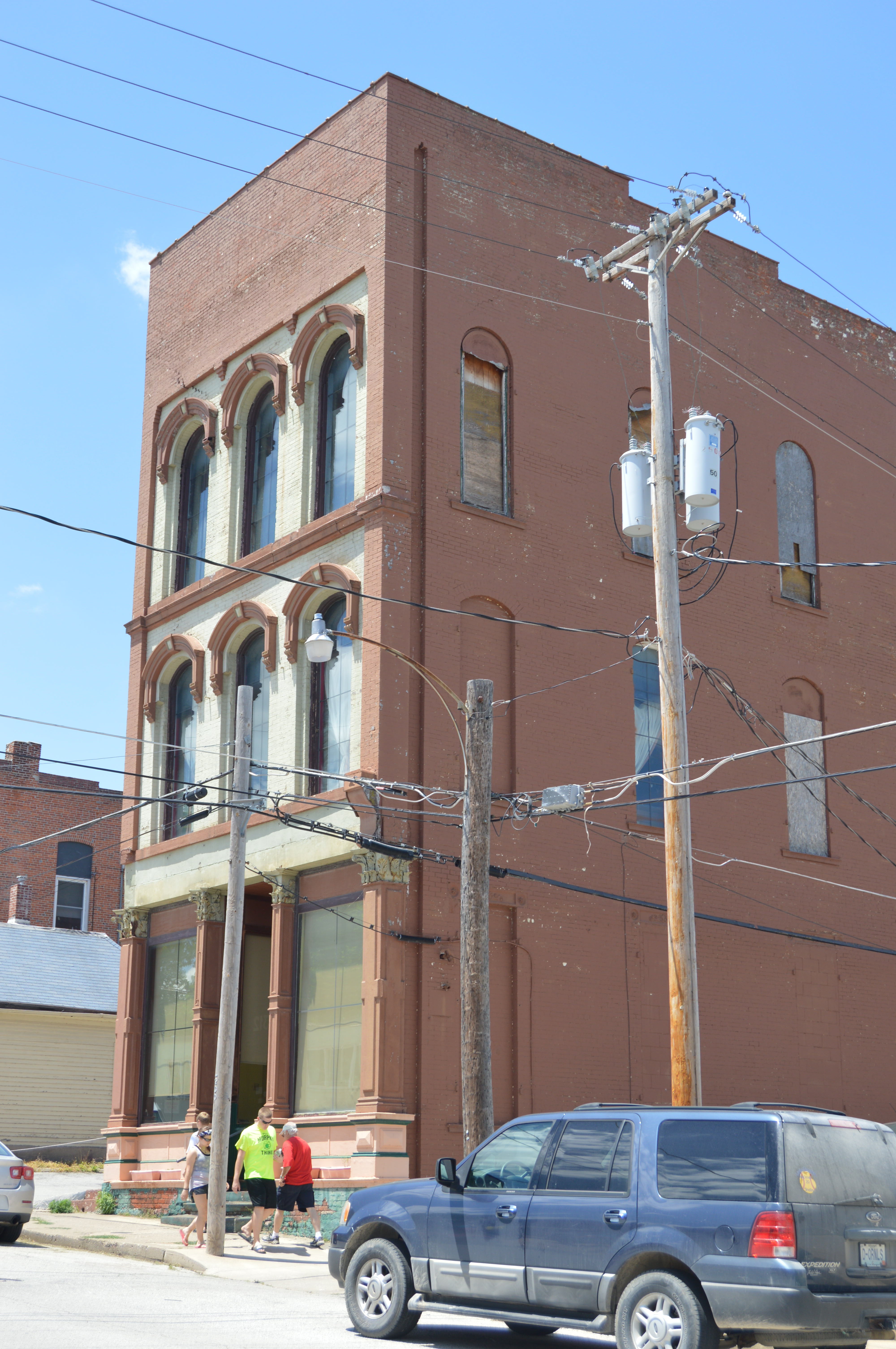 Front and eastern side of the Hock Building, located at 312 Center Street in Hannibal, Missouri, United States. Built in 1872, it is listed on the National Register of Historic Places.